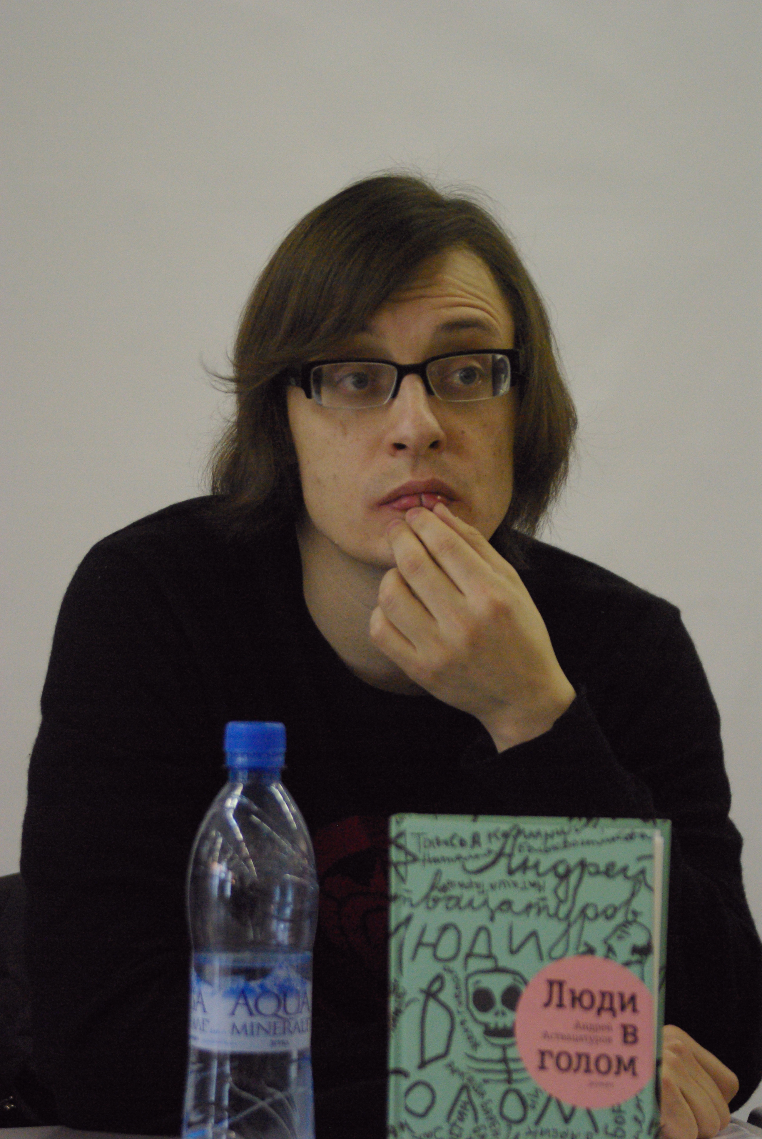 Russian writer Andrei Astvatsaturov signing books at the 11 Moscow International Fair of Intelectual Books, Non-Fiction 2009